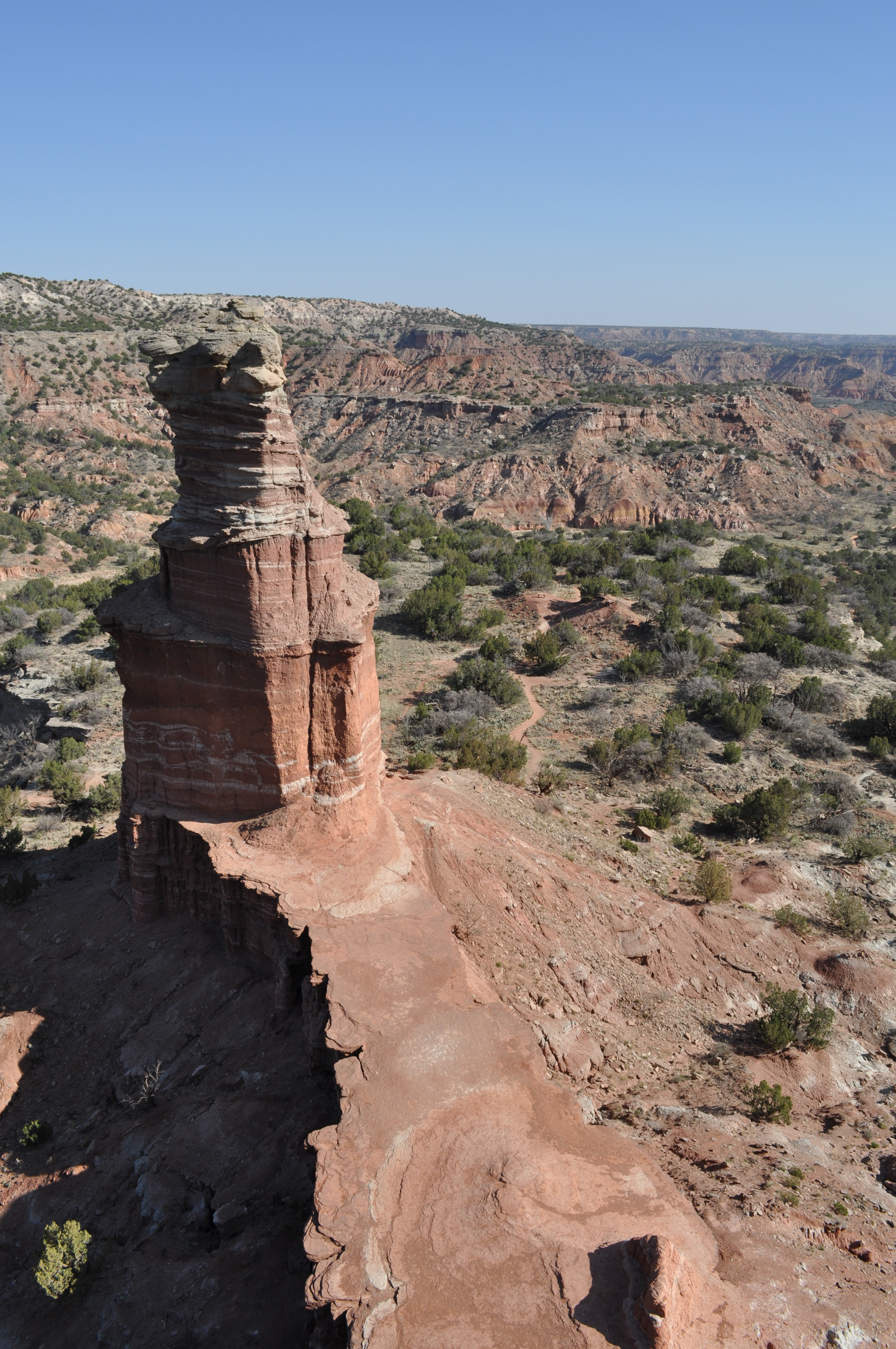 “The Lighthouse”, a pillar-like erosional remnant of Upper Triassic continental sandstones and shales of the Trujillo Formation (Dockum Group)[1] in the northern part of the Palo Duro Canyon, about 20 km SE of Amarillo, NW-Texas, USA.